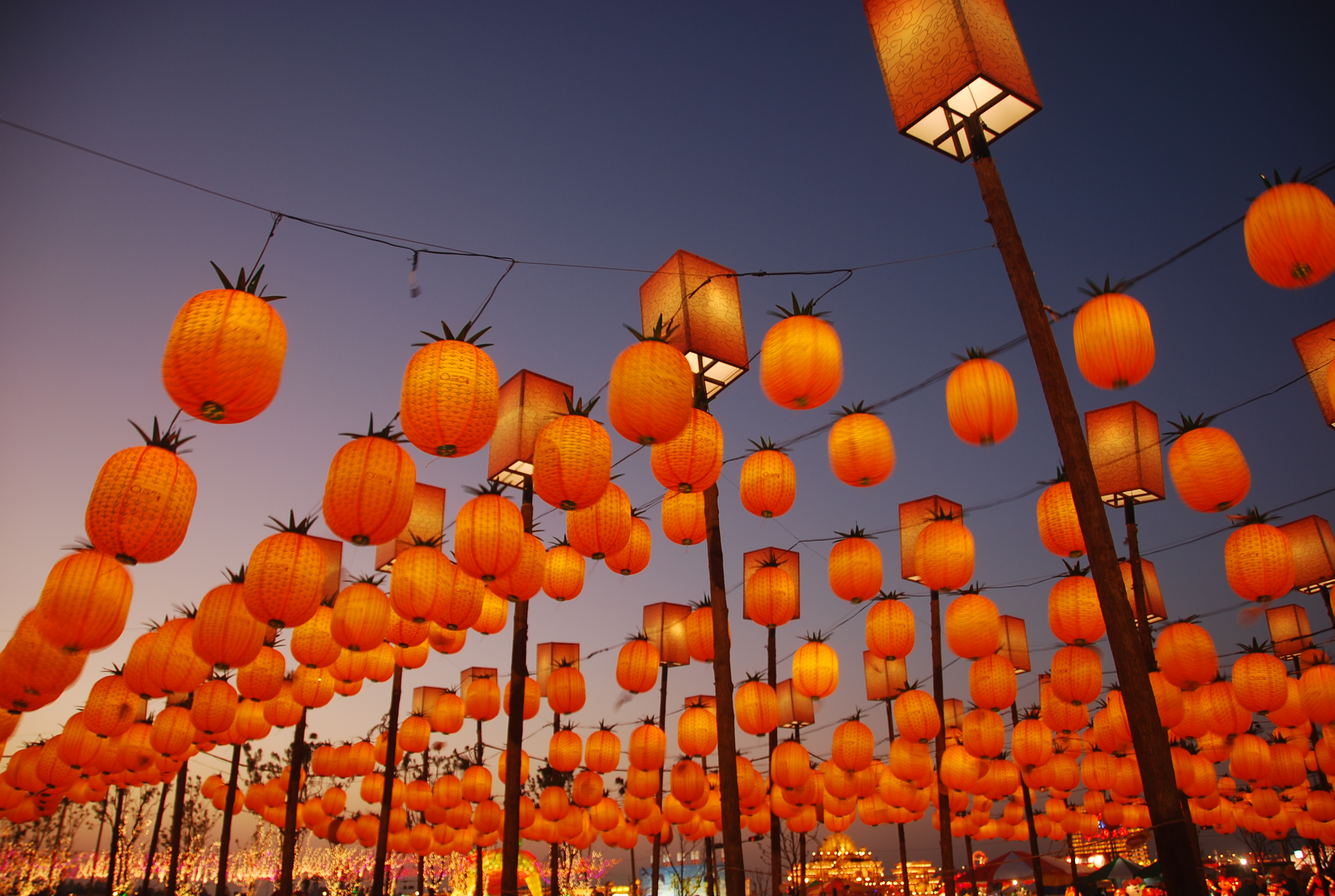 First Full Moon Festival(Taiwanese Lantern Festival) in Taiwan is called Guân-siau(元宵 / 元宵暝) 、 Siōng-guân-mê（上元暝）or Tsiann-gue̍h-tsa̍p-gōo（正月十五） Here is the 2008 Taiwan Lantern Festival is held at Tainan County.jpg [1] The story about this shot in my blog.